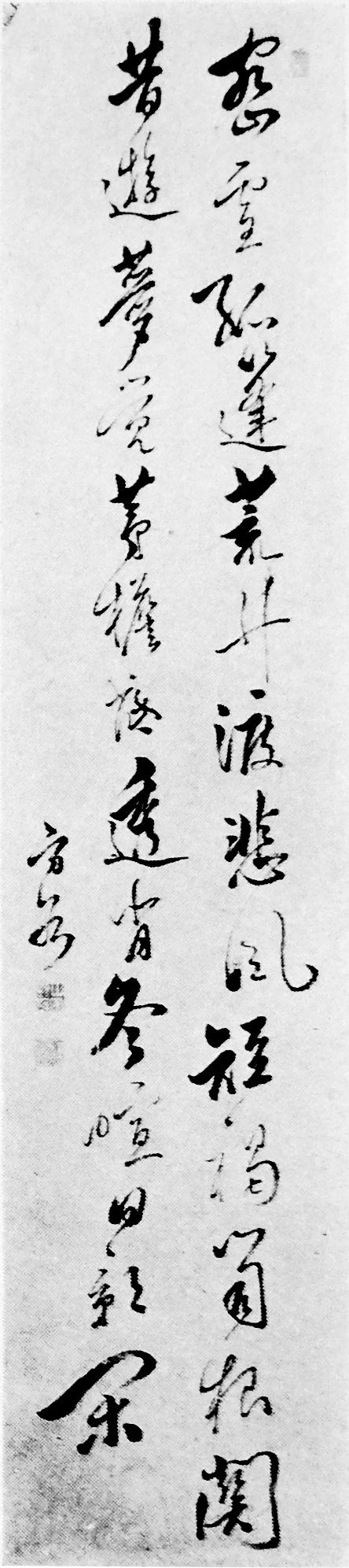 Japanese calligraphy of Hokoku Yamada(1805-1877)